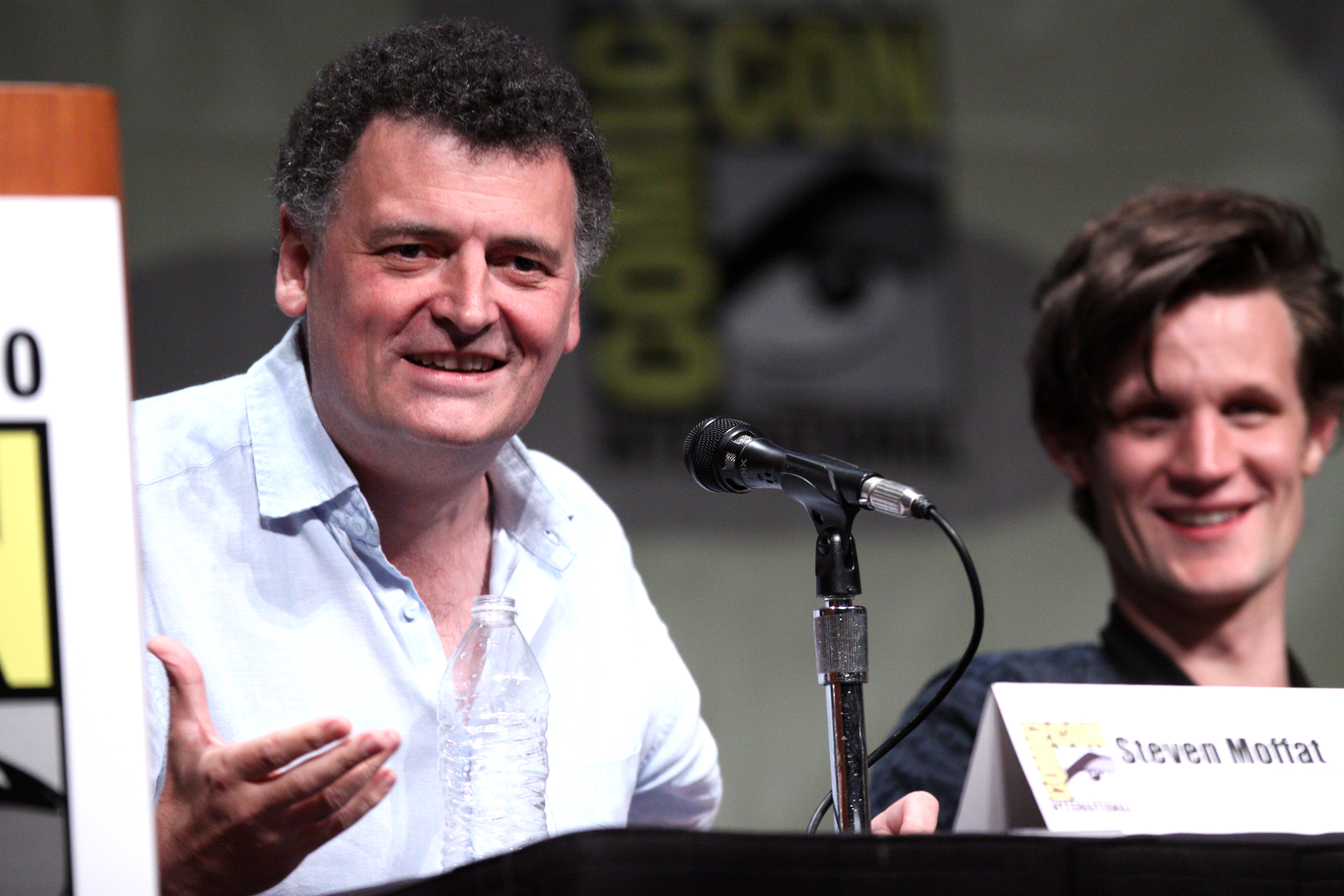 Steven Moffat & Matt Smith speaking at the 2012 San Diego Comic-Con International in San Diego, California.